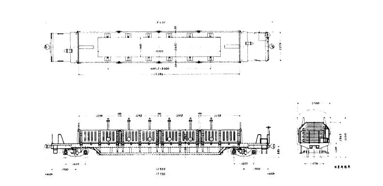 A type drawing of JNR's freight car "Toki80000"